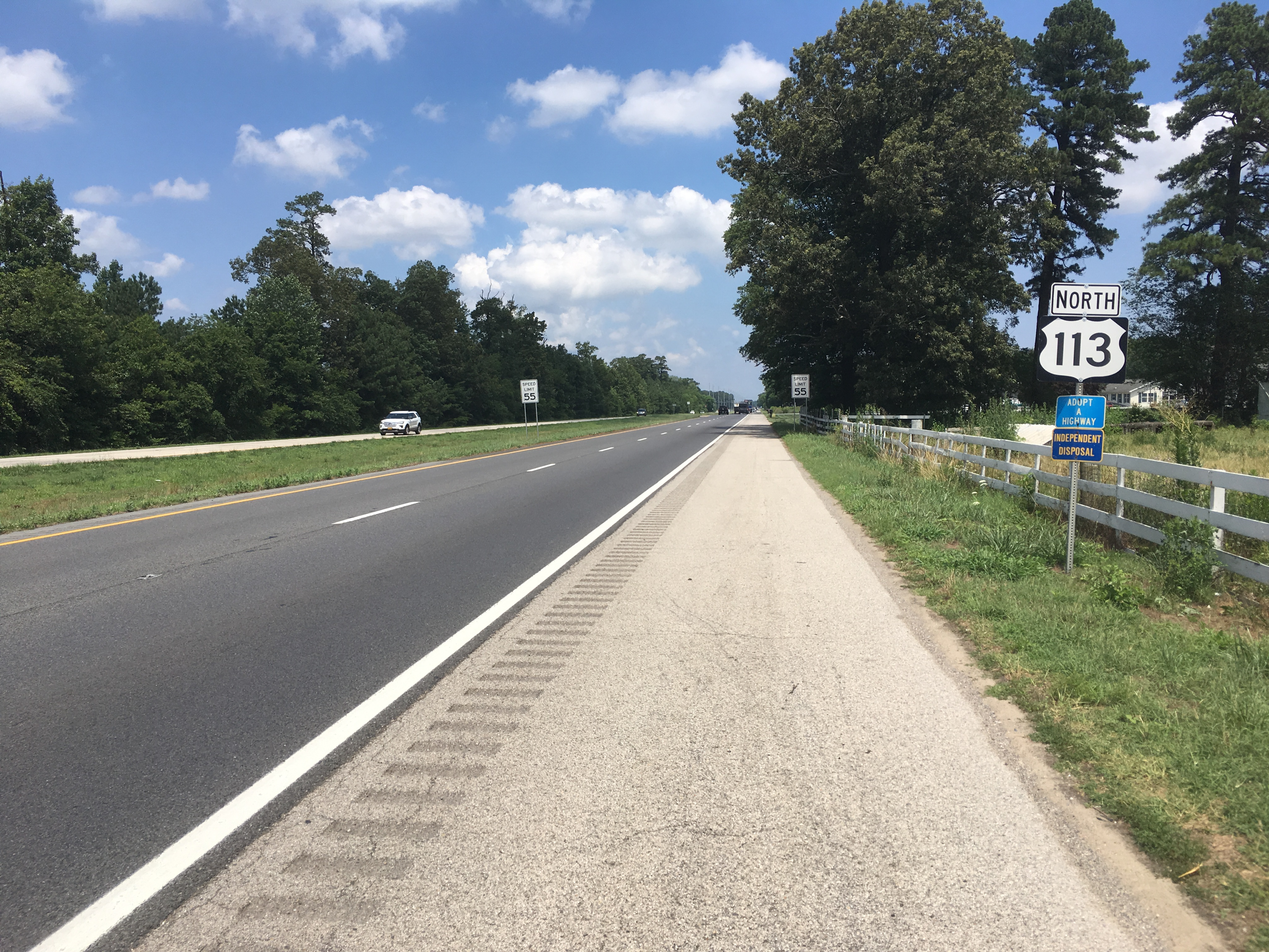 Northbound U.S. Route 113 (Dupont Boulevard) past the intersection with Fitzgeralds Road/Johnson Road west of Lincoln, Delaware